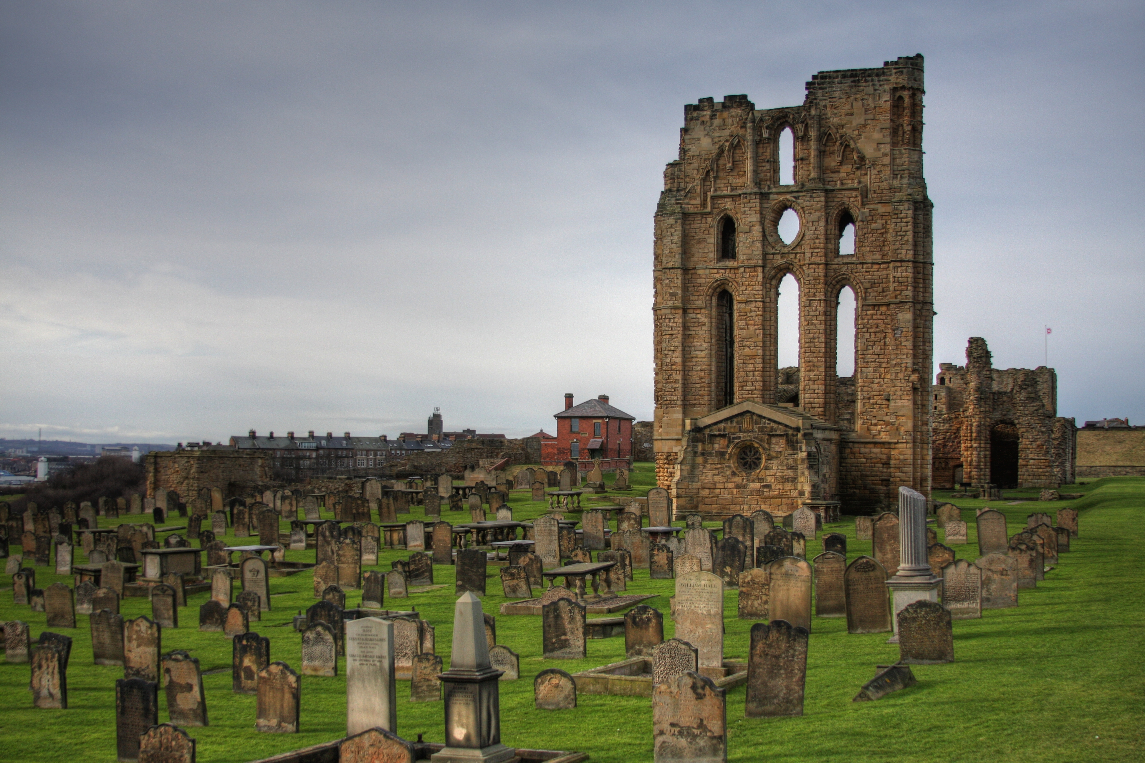 Tynemouth Castle and Priory, an English Heritage site.